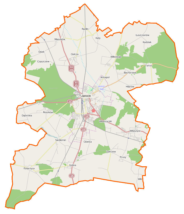 Map of Gmina Jarocin, Poland This map of Jarocin (gmina w województwie wielkopolskim) was created from OpenStreetMap project data, collected by the community. This map may be incomplete, and may contain errors. Don't rely solely on it for navigation. Border coordinates52.058617.3766←↕→17.641751.8686